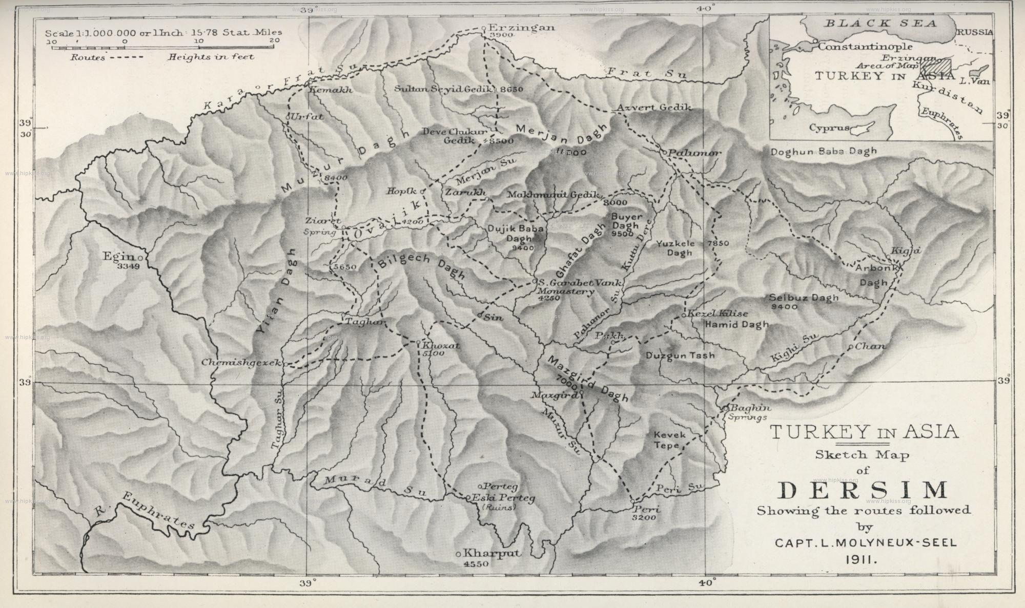 Sketch map of Dersim, Showing routes followed by Cap. L. Molyneux-Seel, Turkey in Asia.